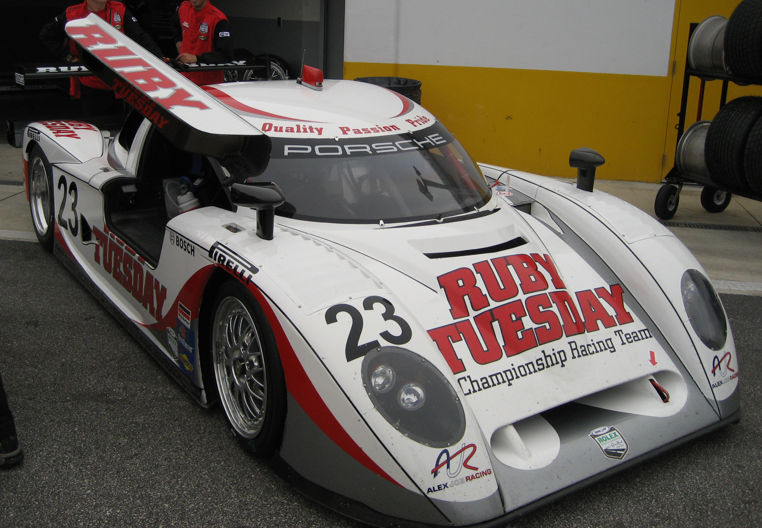 Alex Job Racing's Crawford DP03 prototype.